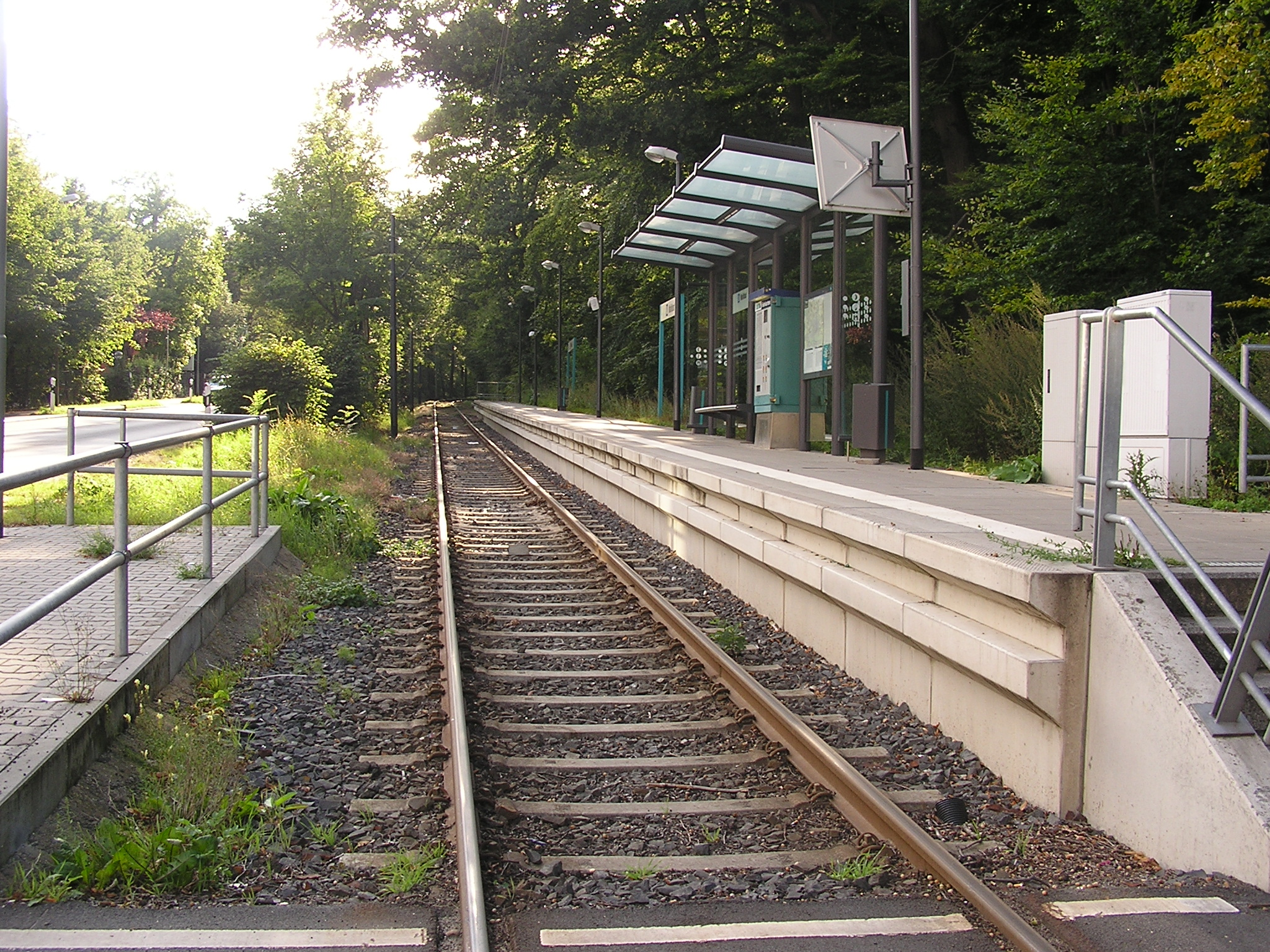 Stop Waldlust at the line U3